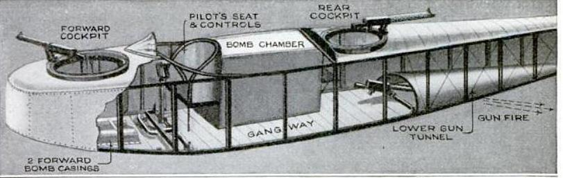 General arrangement Schematic drawing of the internal arrangement of the Gotha Bomber including the then-innovative arrangement of a gun tunnel allowing protection from attack from the rear. Not to scale or type specific.